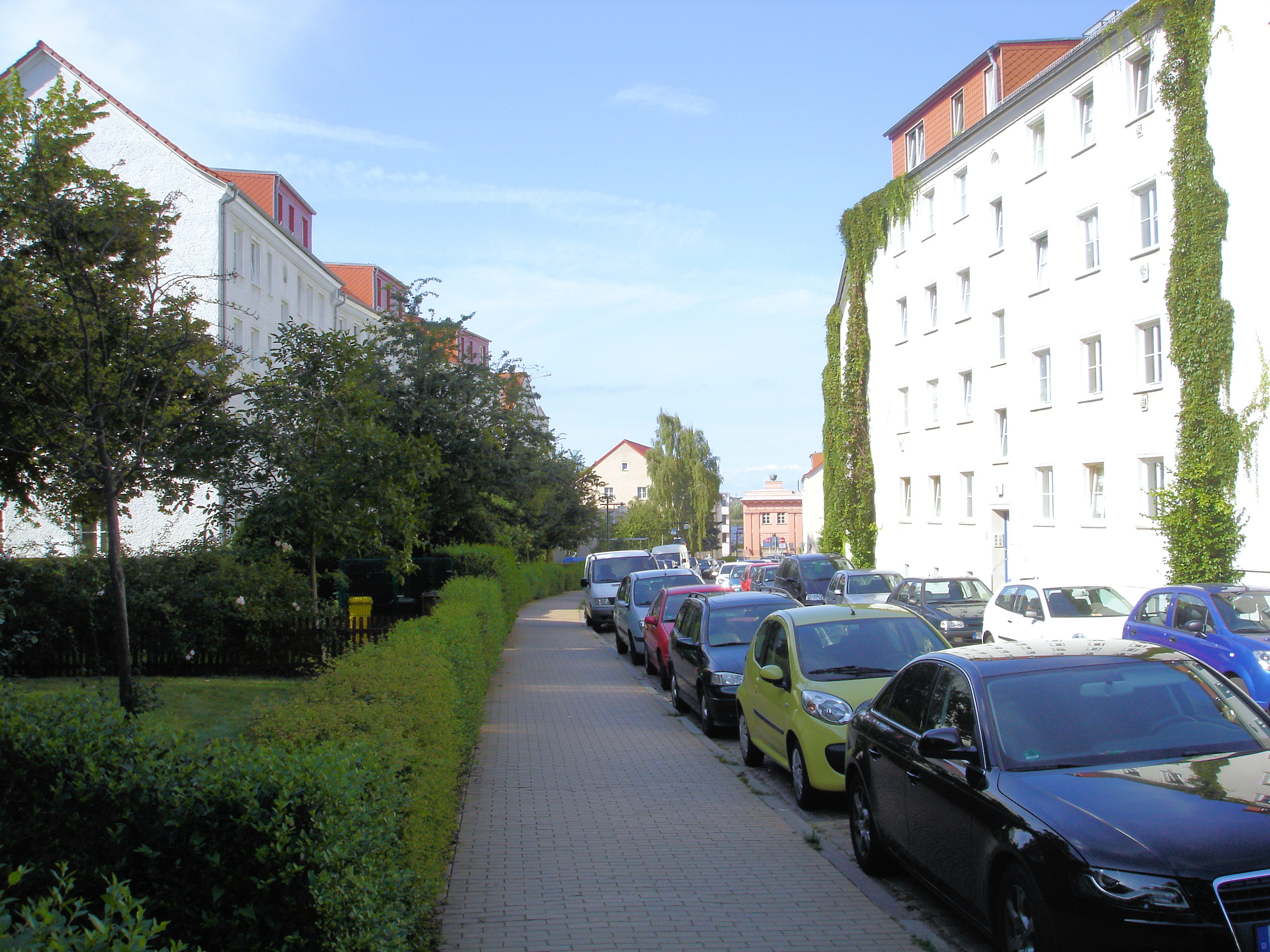 Street in the historic city of Rostock